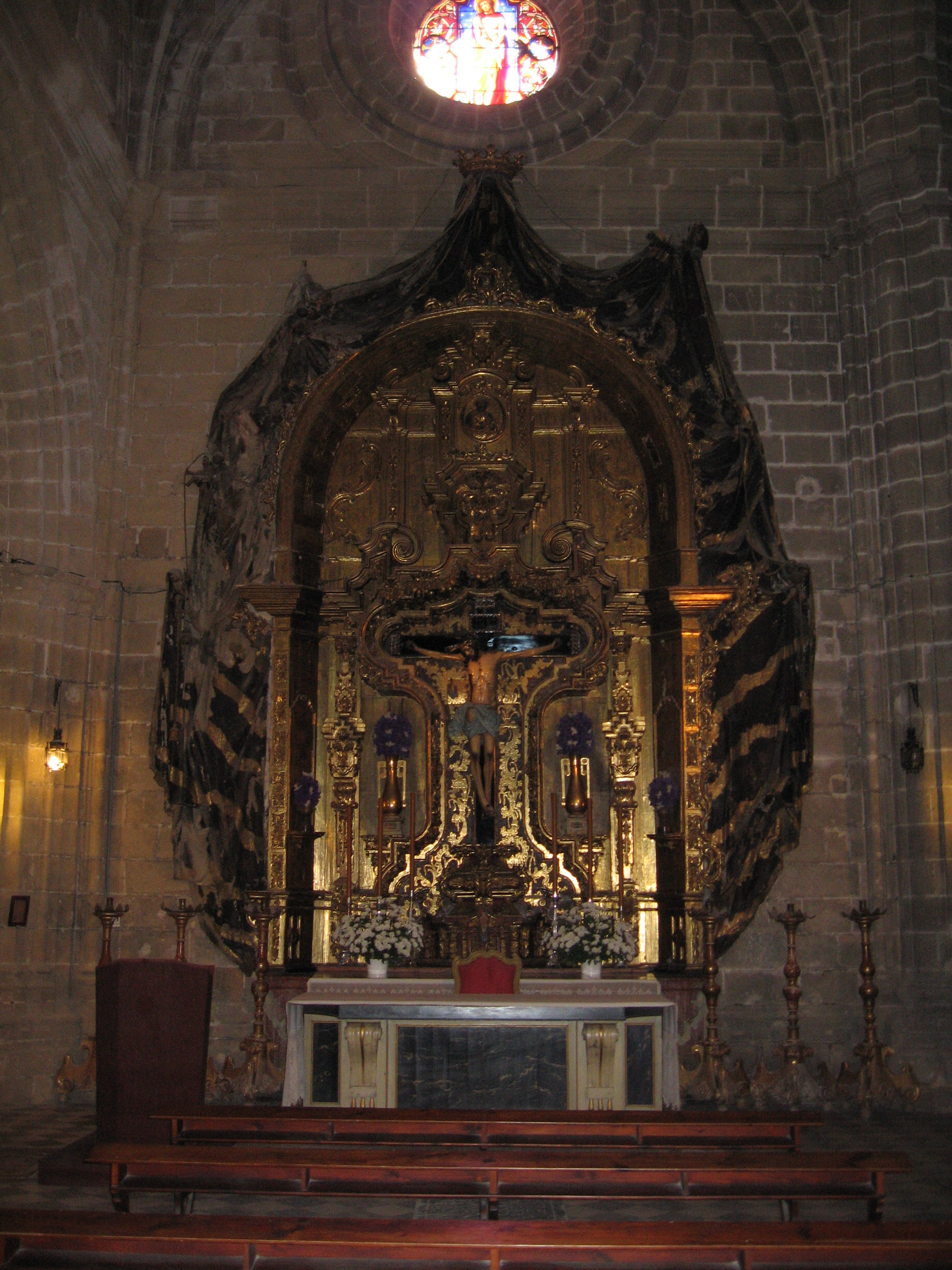 Cristo de la Viga at Cathedral of Jerez de la Frontera, Andalusia (Spain)